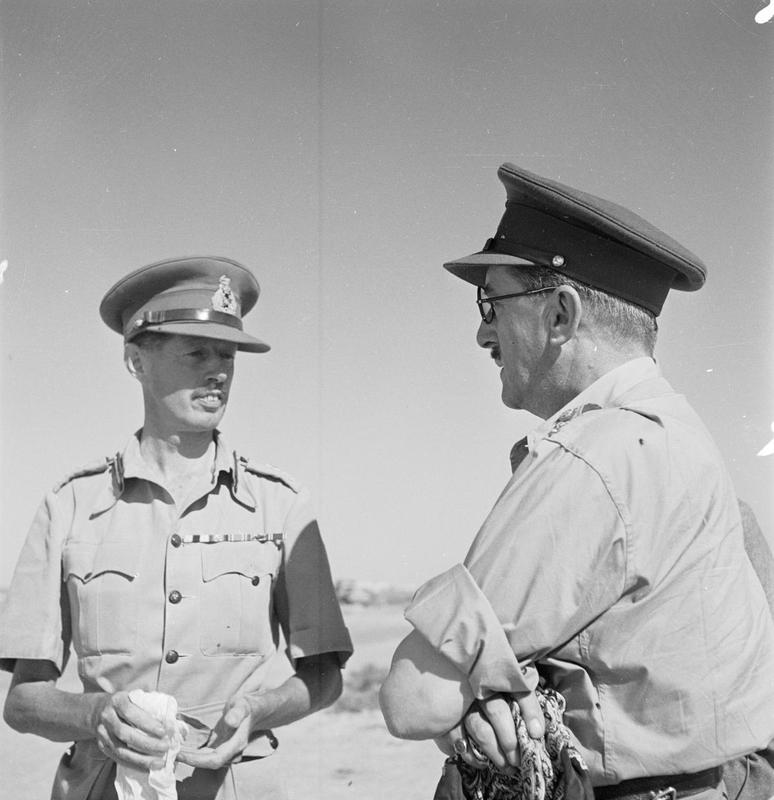 British Generals 1939-1945 Major General Sir Eric Dorman-Smith (1895 - 1969): Major General Dorman-Smith talking with the Chief of the Imperial General Staff, General Sir Alan Brooke at El Alamein.